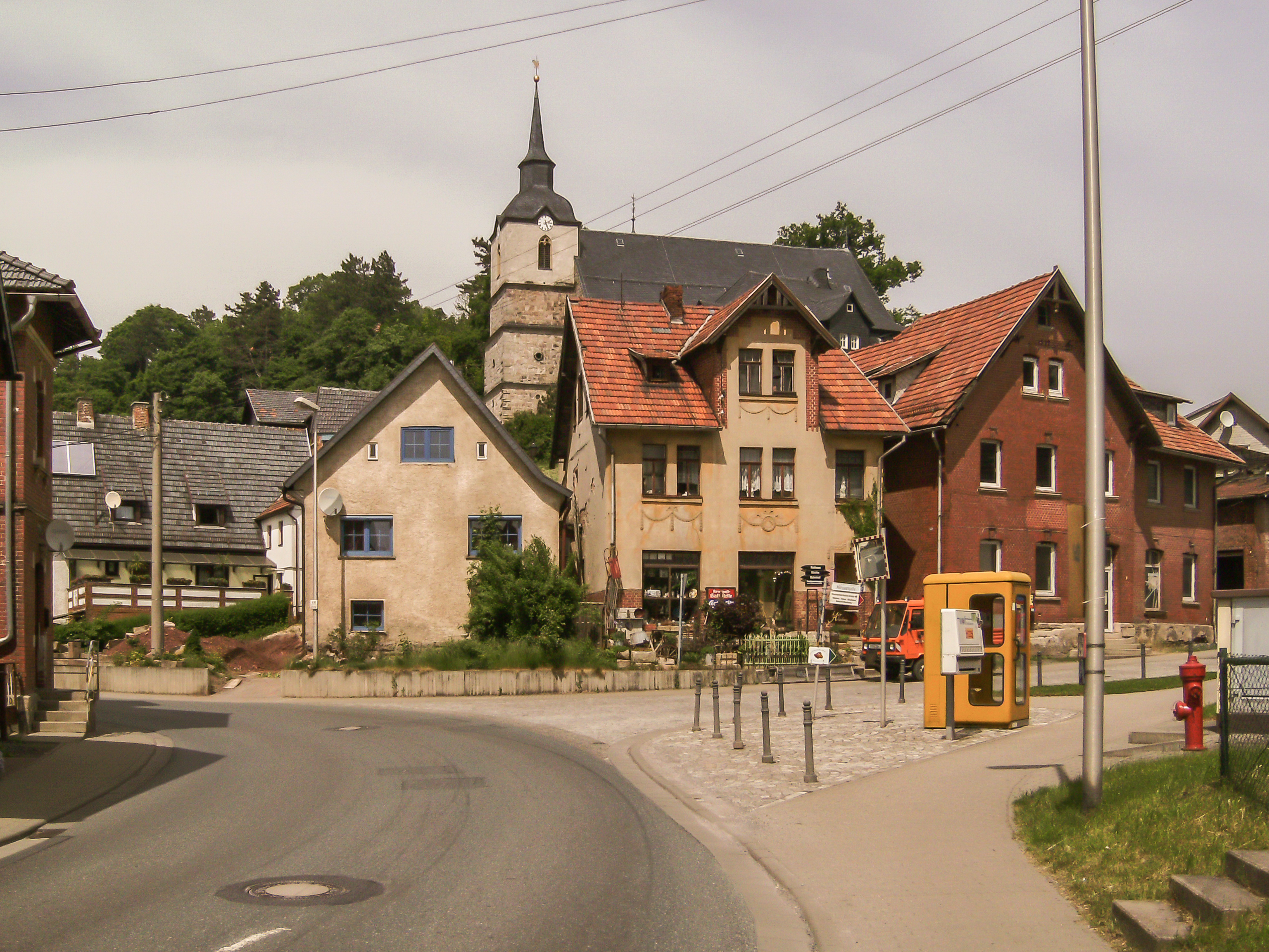 Neuhaus-Schierschnitz, view to a street